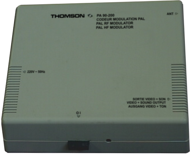 Thomson RF Modulator PA90-200